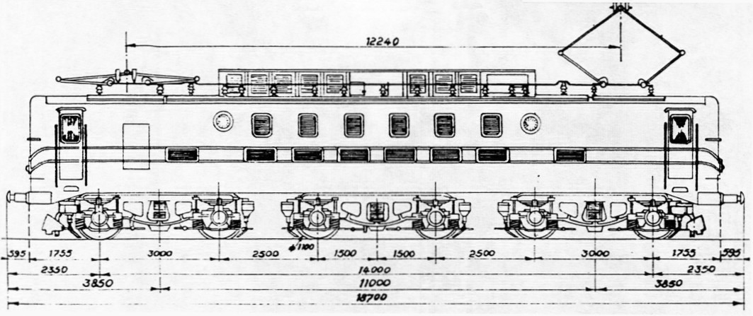 Drawing of electric locomotive SNCF BBB 6053